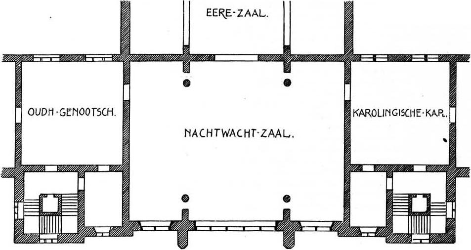 Proposal for an alteration of the Rijksmuseum, Amsterdam, plan Nachtwachtzaal.